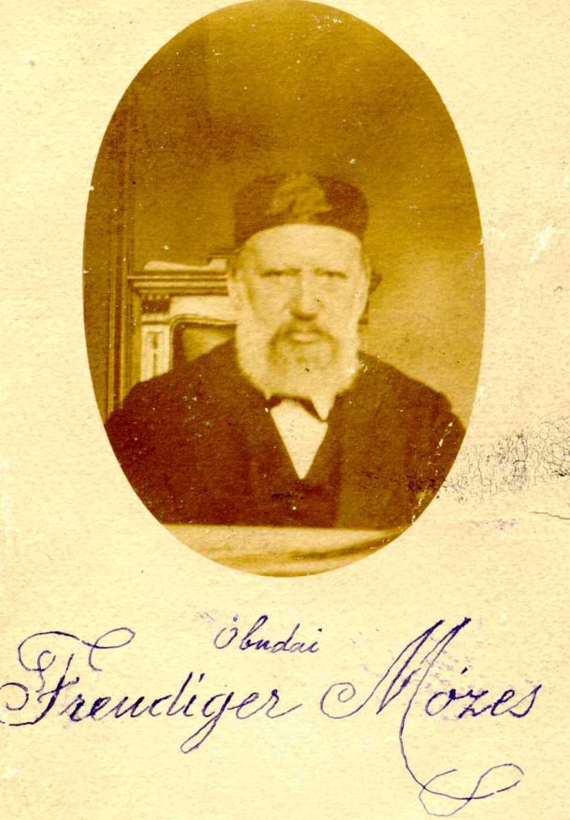 photoportrait of Obudai Mozes von Freudiger